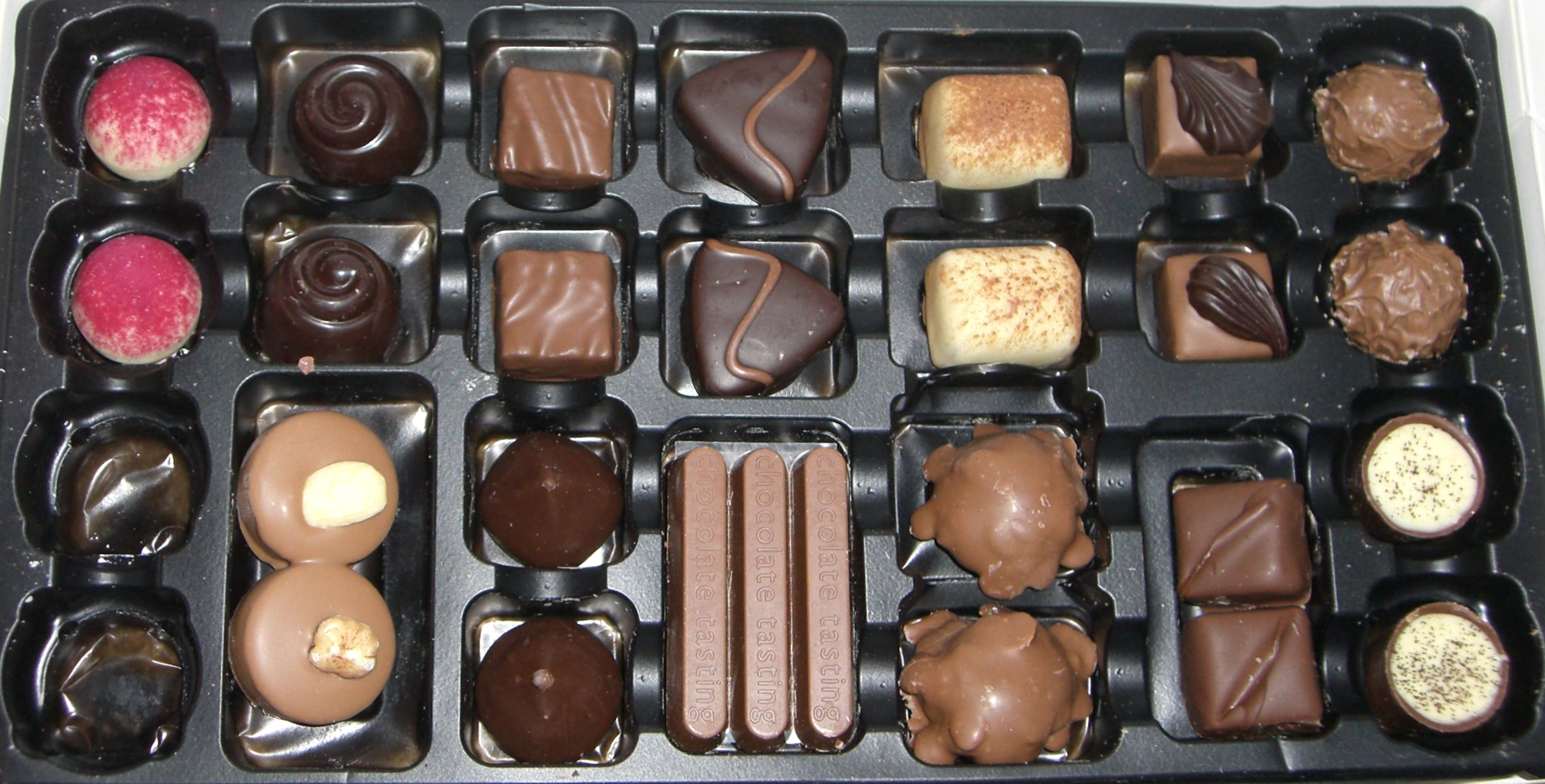 Pralines in a box